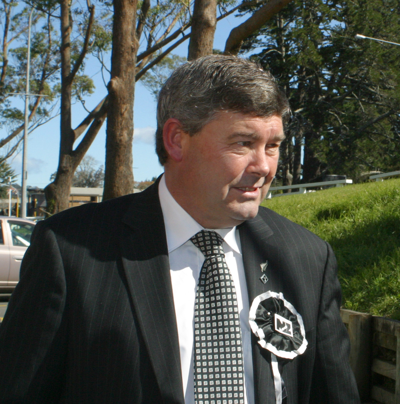 The New Zealand First candidate for North Shore, former Mayor of North Shore City, Andrew Williams, was introduced at a Grey Power Meeting with Winston Peters... a speech to Grey Power Members at the Netball North Harbour Stadium on Aucklands North Shore today.